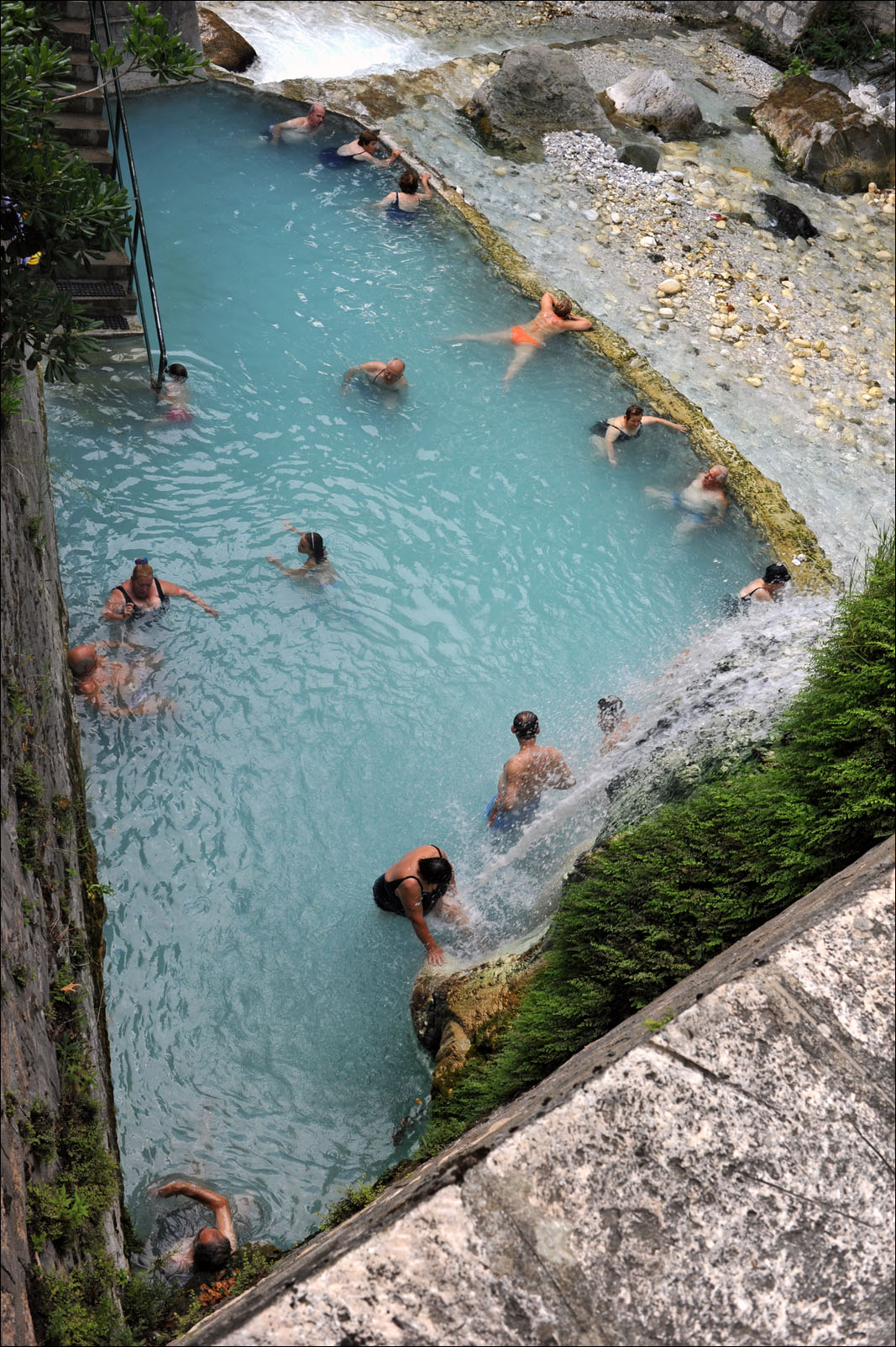 Aridea - Pozar springs, Pella Prefecture, Greece.